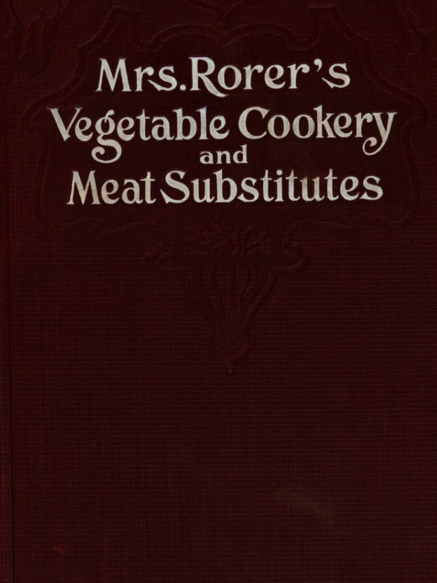 Front cover of Mrs. Rorer's Vegetable Cookery and Meat Substitutes, published in 1909.